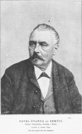 Portrait of Pavel Švanda ze Semčic, Czech playwright and organizer/director of theaters.